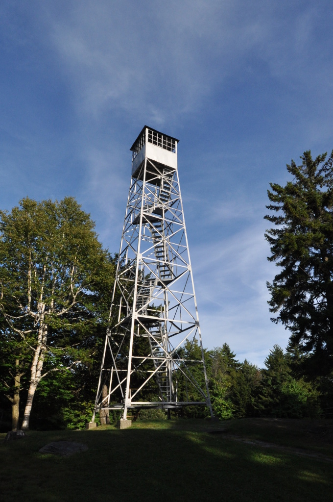 Allis State Park, Brookfield, Vermont. The observation tower.